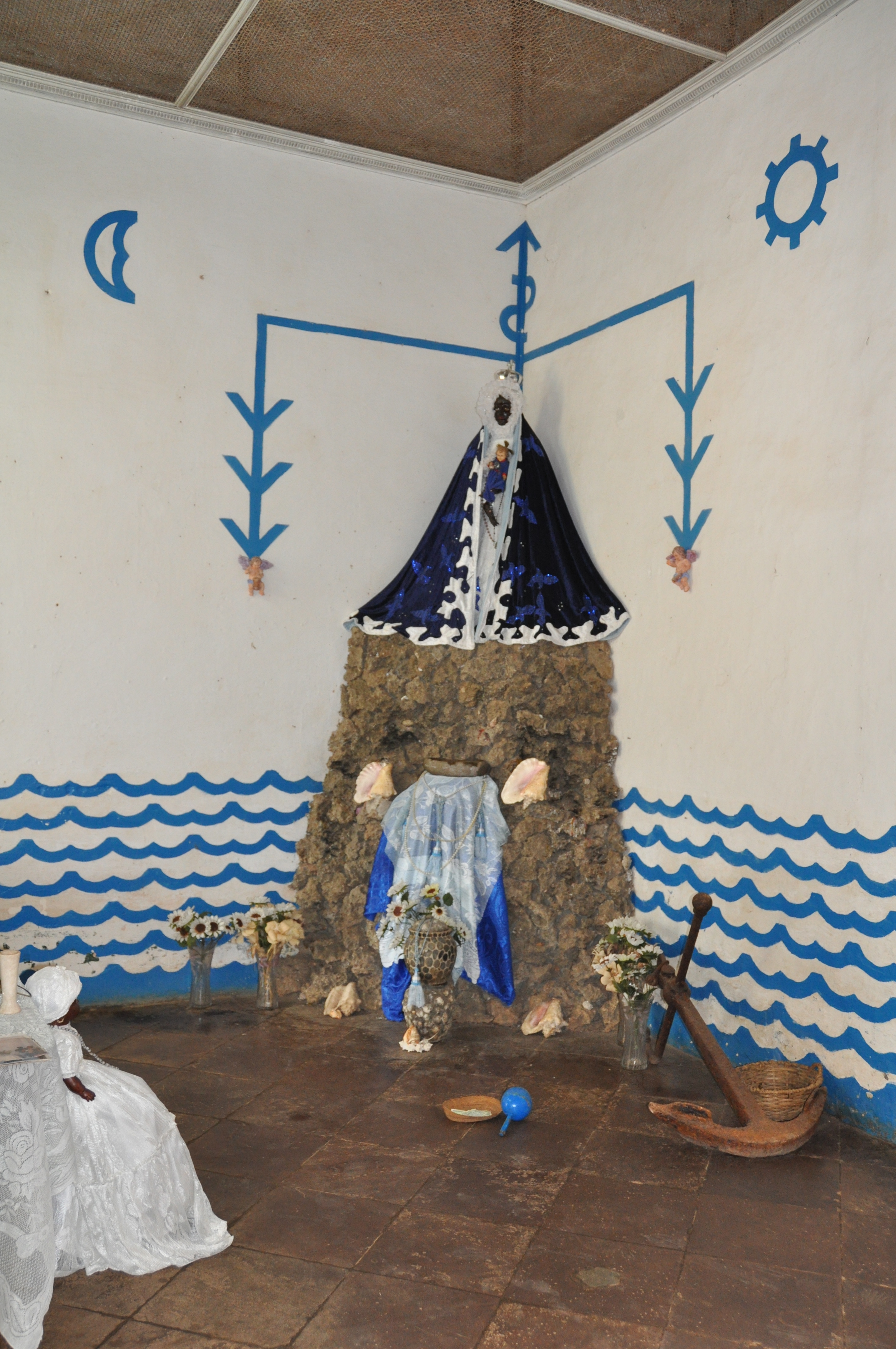 The tempel of the Yemayà divinity in Trinidad - Cuba.